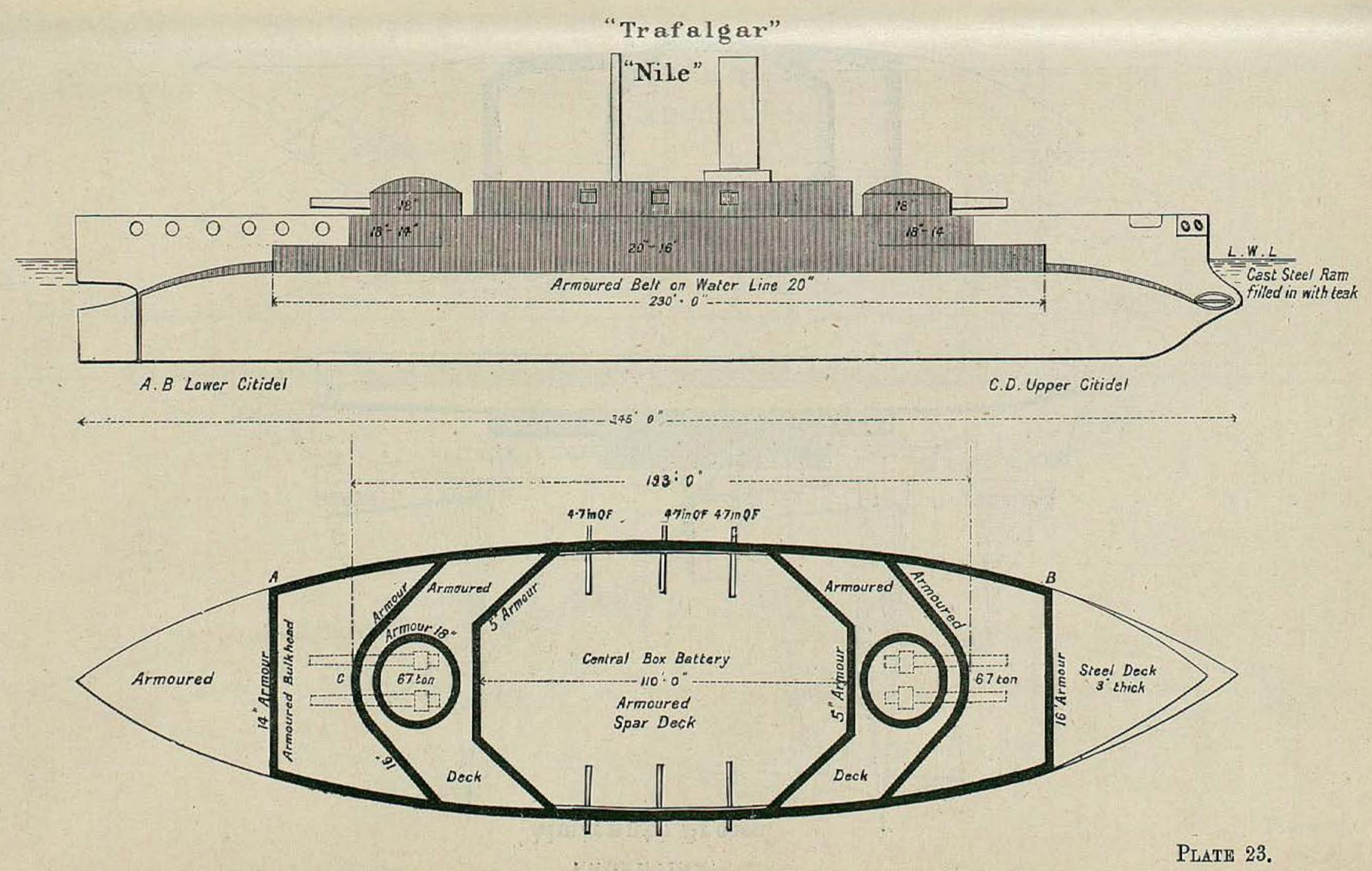 Right elevation and plan of the Trafalgar-class ironclad battleships